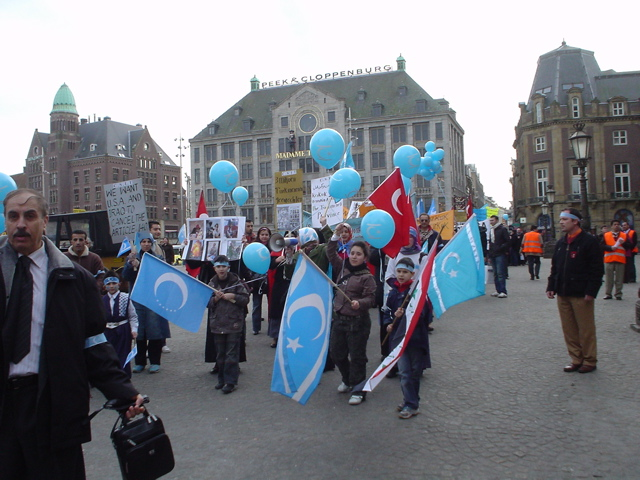 Iraqi Turkmen protest in Amsterdam